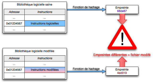 Illustration of integrity checking with hash function. Different files lead to different hashes.